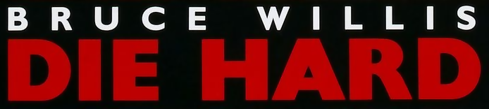 Logo of the film Die Hard taken from the film poster.